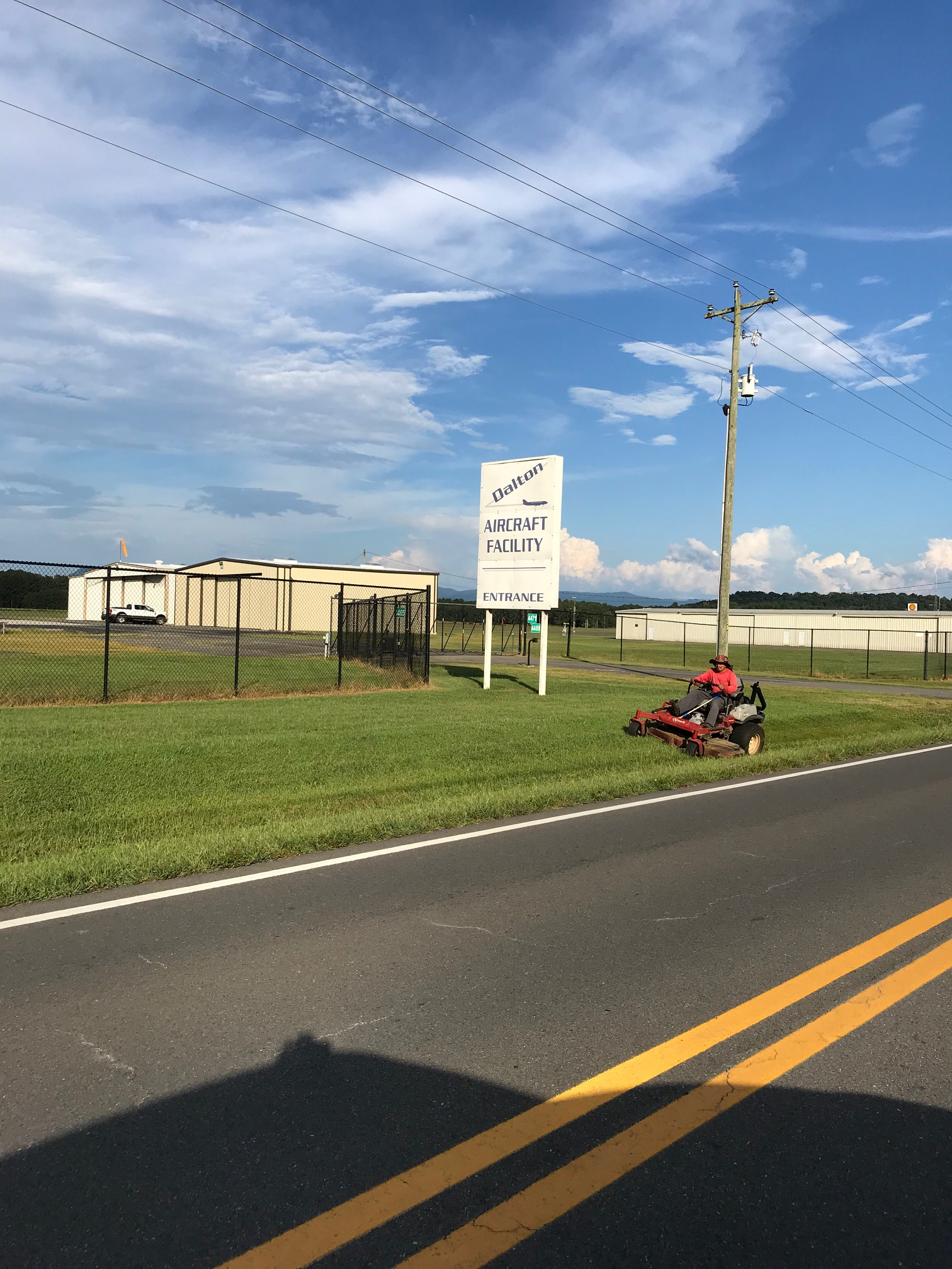 Dalton Municipal Airport taken from the road approaching